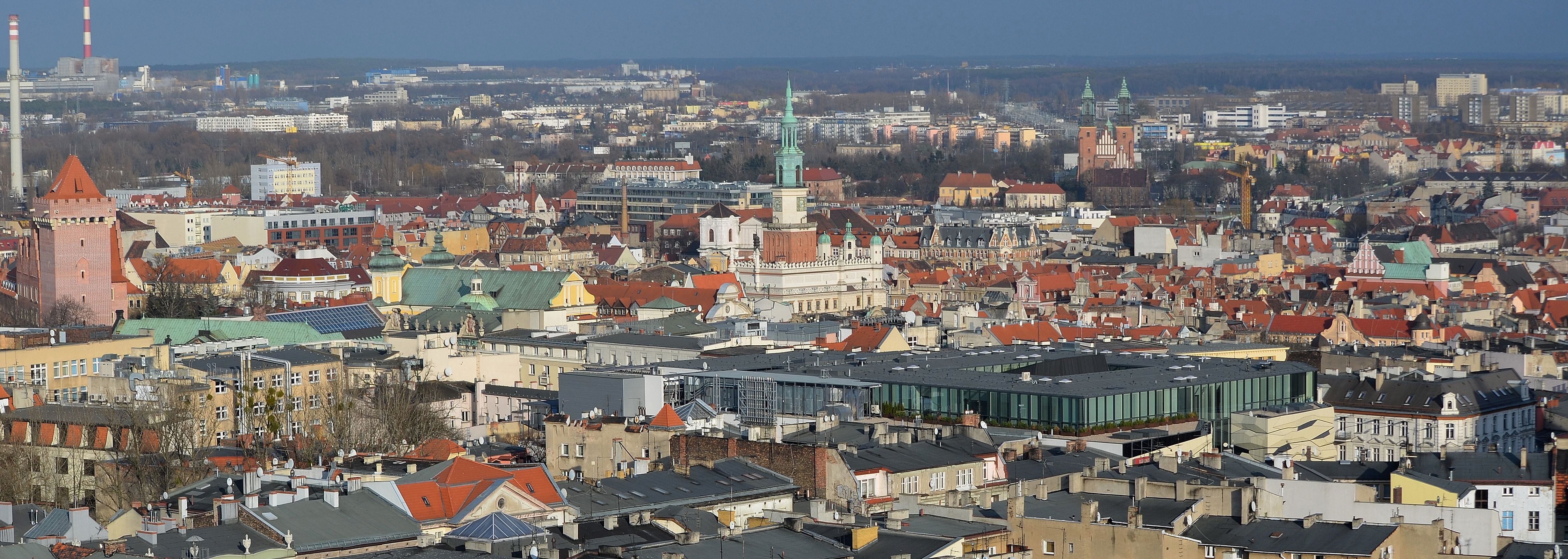 Poznań viewed from 15th floor of Collegium Altum building